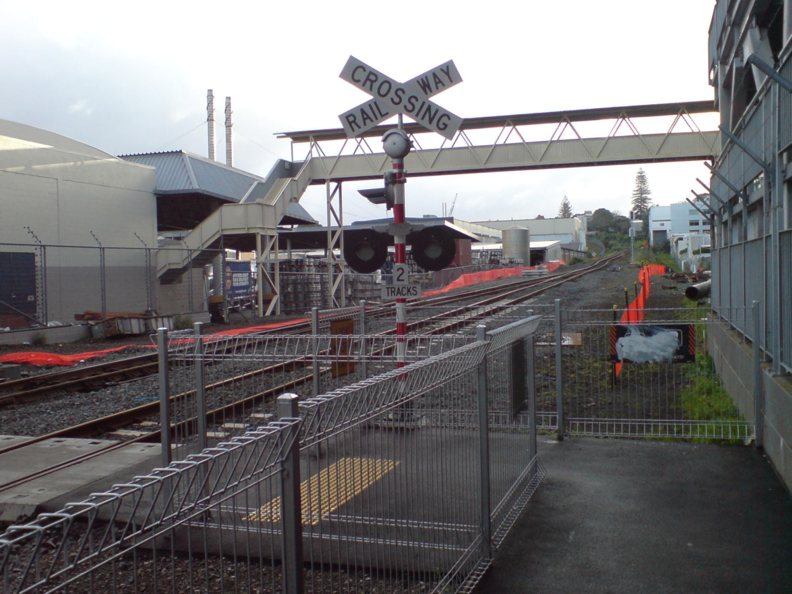 A temporary level pedestrian crossing west of Newmarket West, leading to a temporary train station in Newmarket, Auckland City, New Zealand. Lion's Brewery footbridge behind.